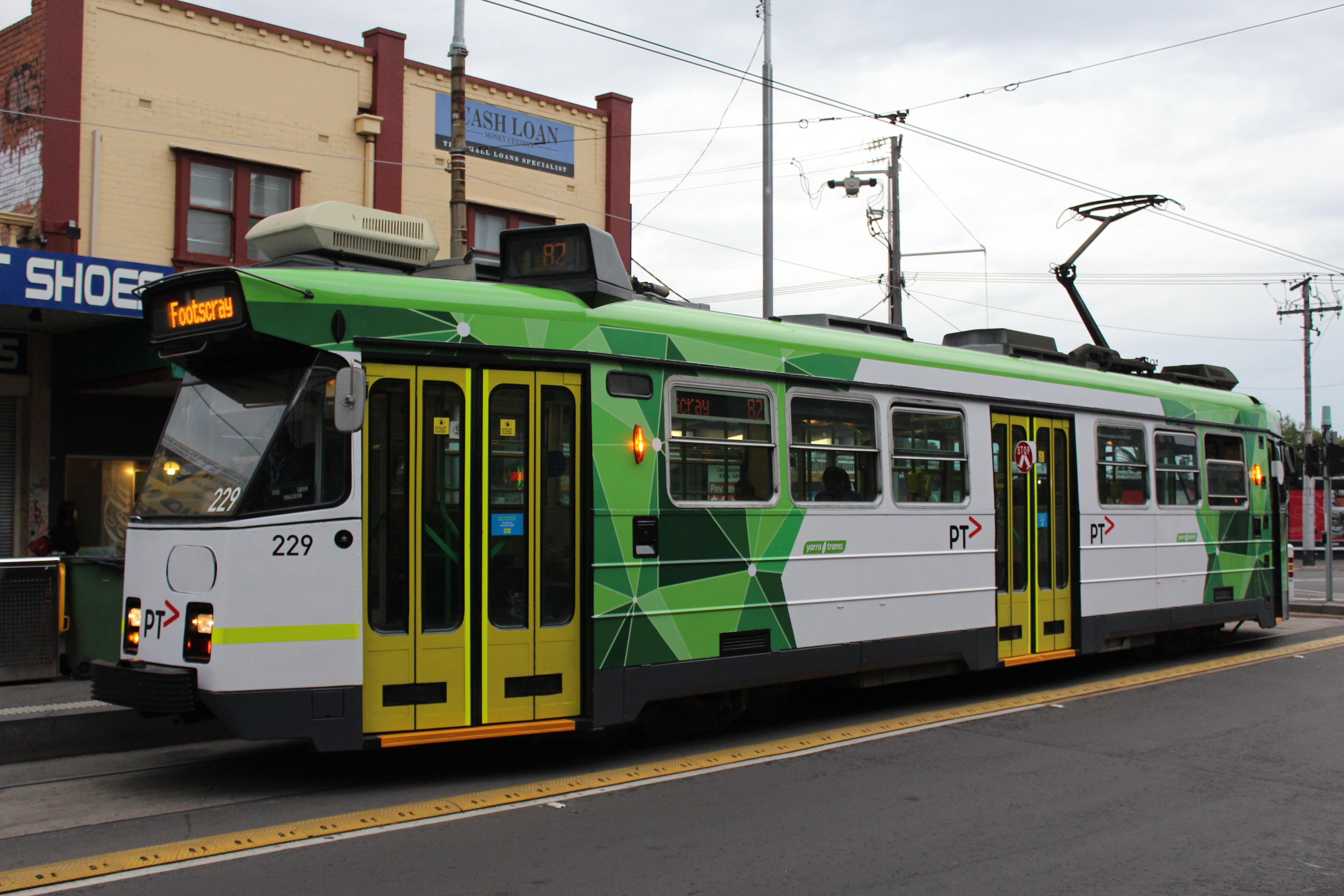 Z3 229 at Footscray Terminus in Leeds Street on route 82, in PTV livery, 2013.